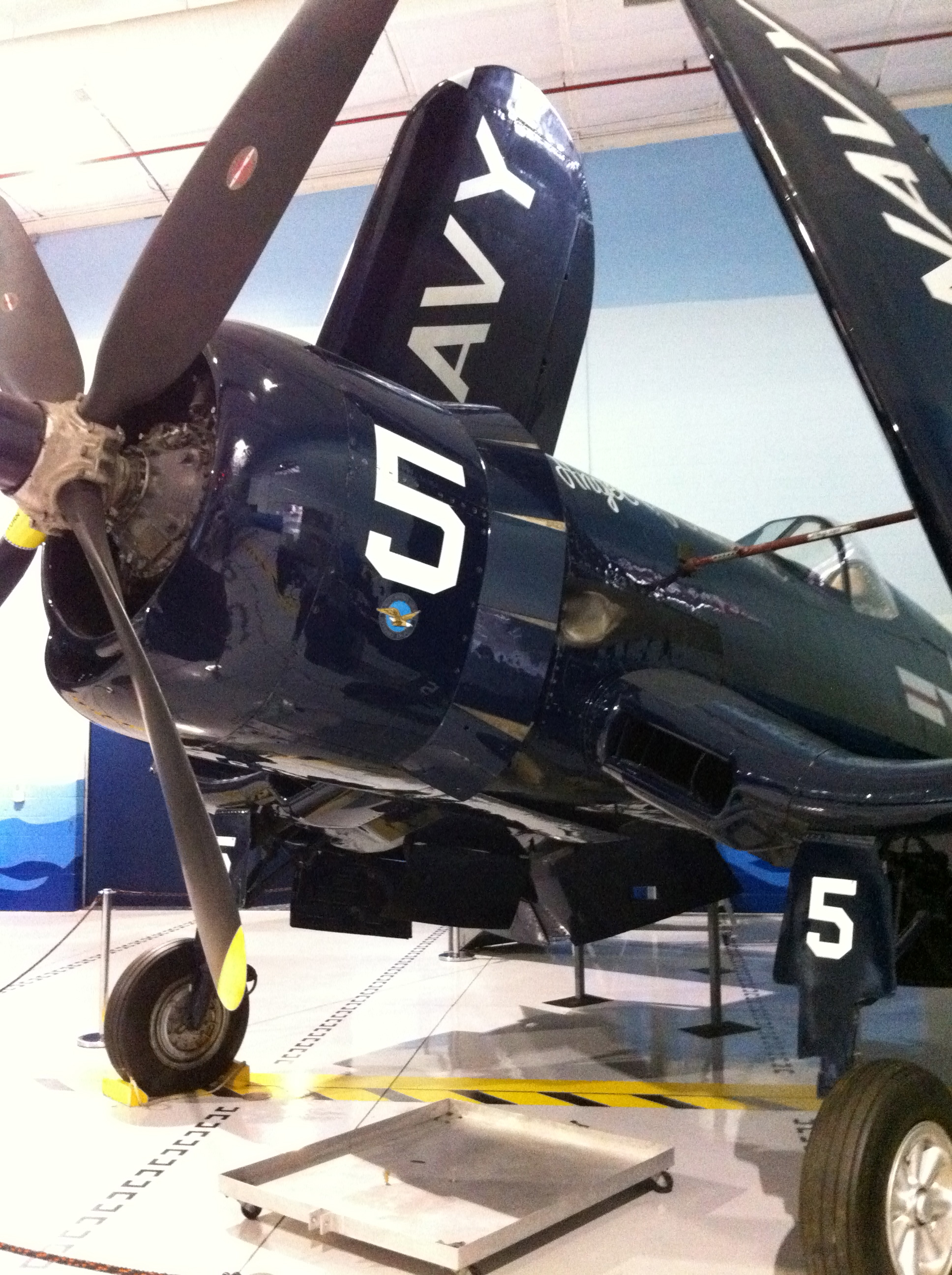 Corsair at Fantasy of Flight in Polk City, Florida on display with wings folded as stored aboard and aircraft carrier.